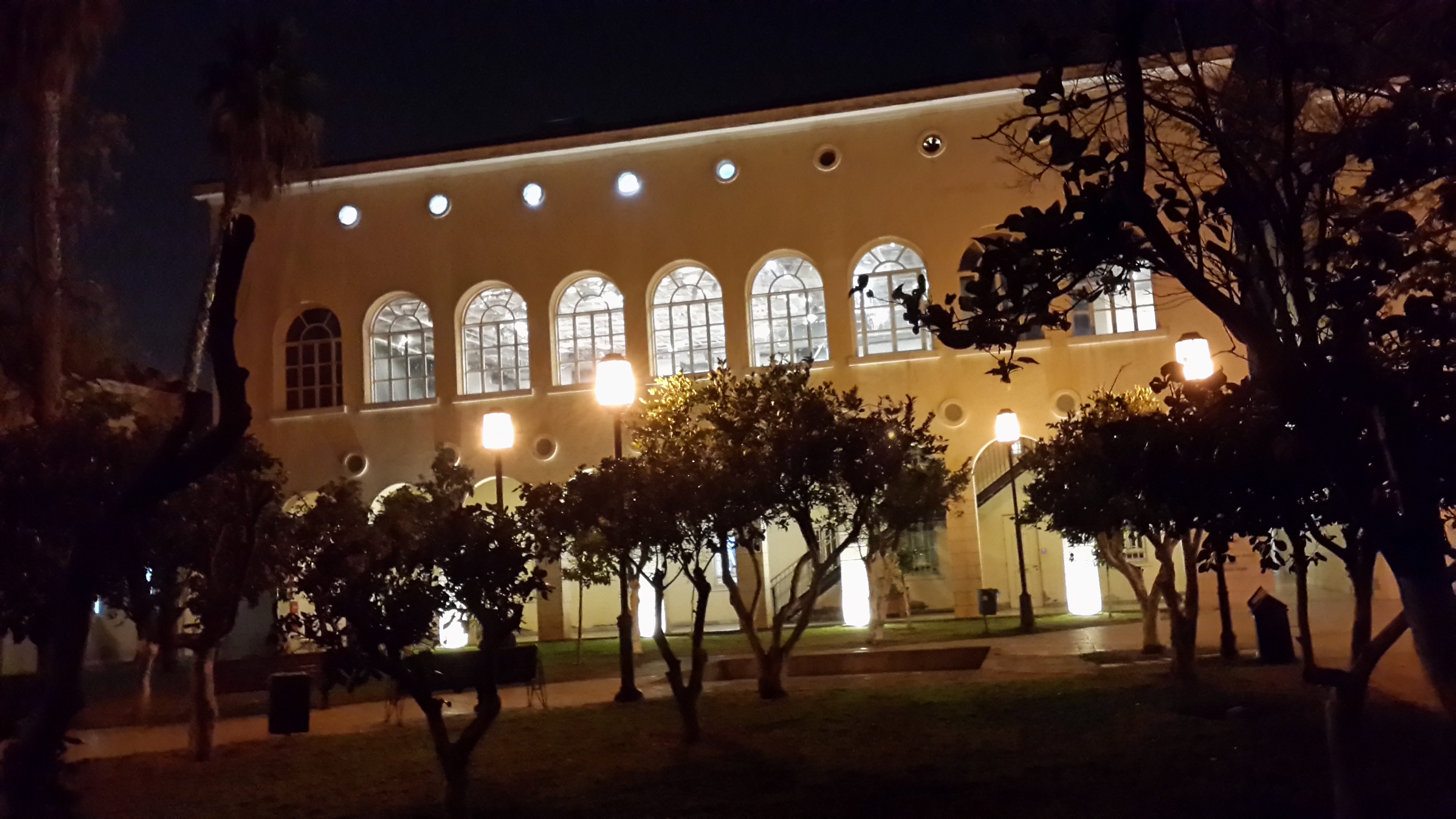 Studio Varda